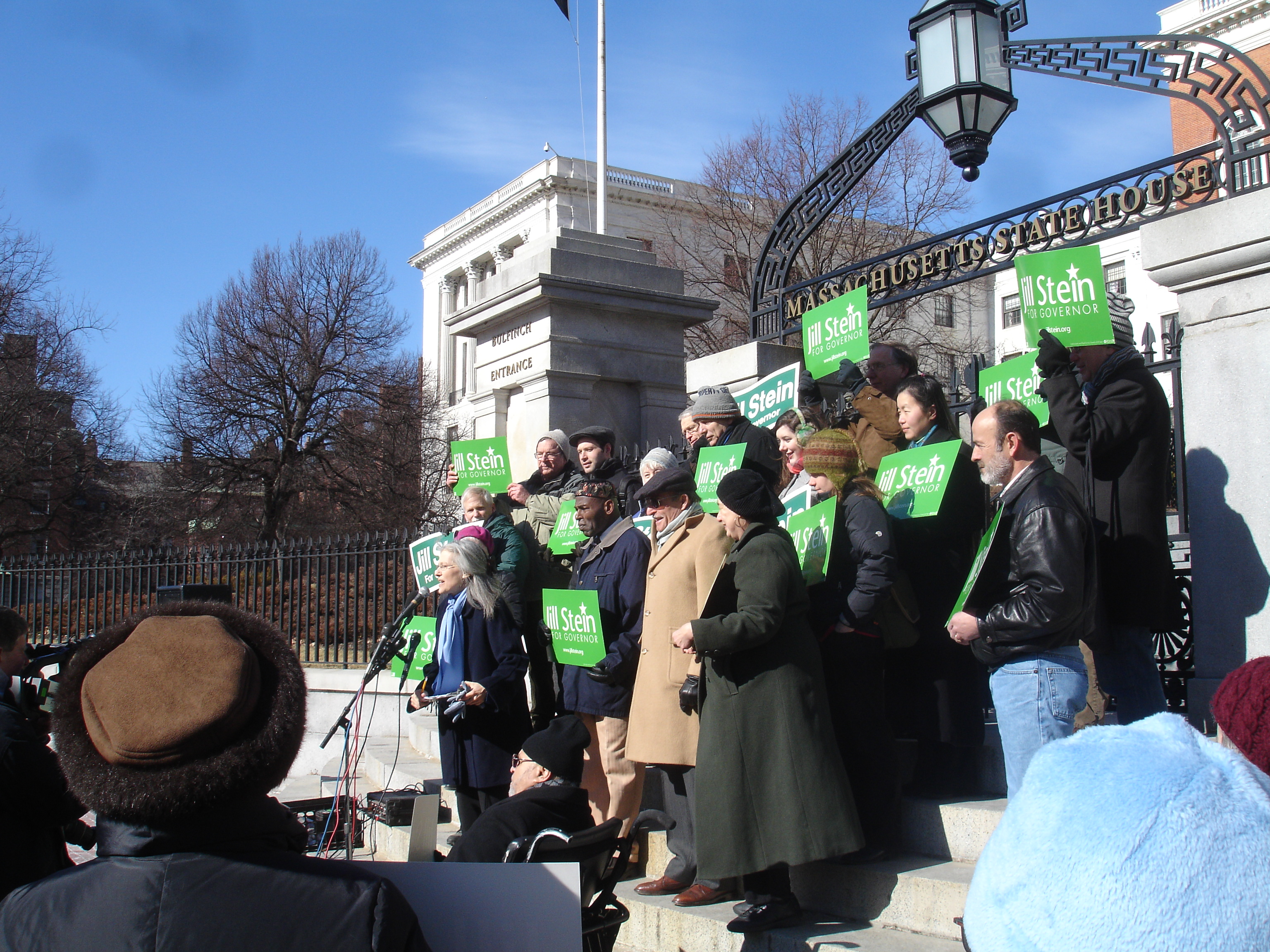 Photo of Jill Stein, Green-Rainbow Party candidate for Governor of Massachusetts at her candidacy announcement rally in front of the Massachusetts State House on February 8th, 2010.